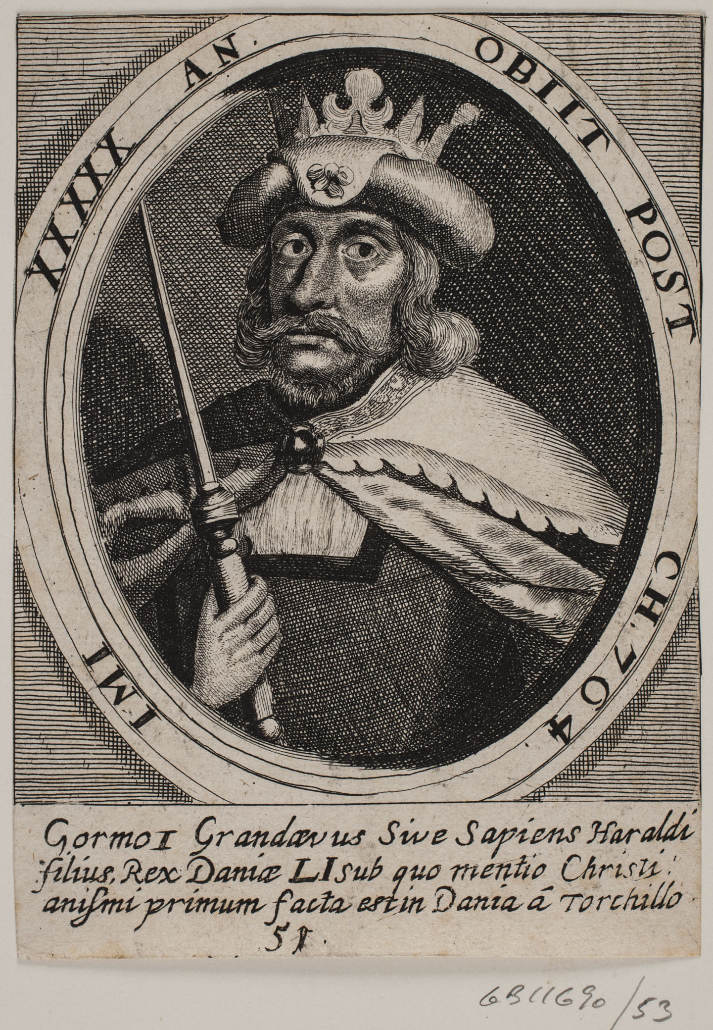 Albert Haelwegh (1601-1673); , Kong Gorm, (1646), 'Gorm Grandævus' legendary king of Denmark - probably the legendary father of king Gøtrik according to Saxo